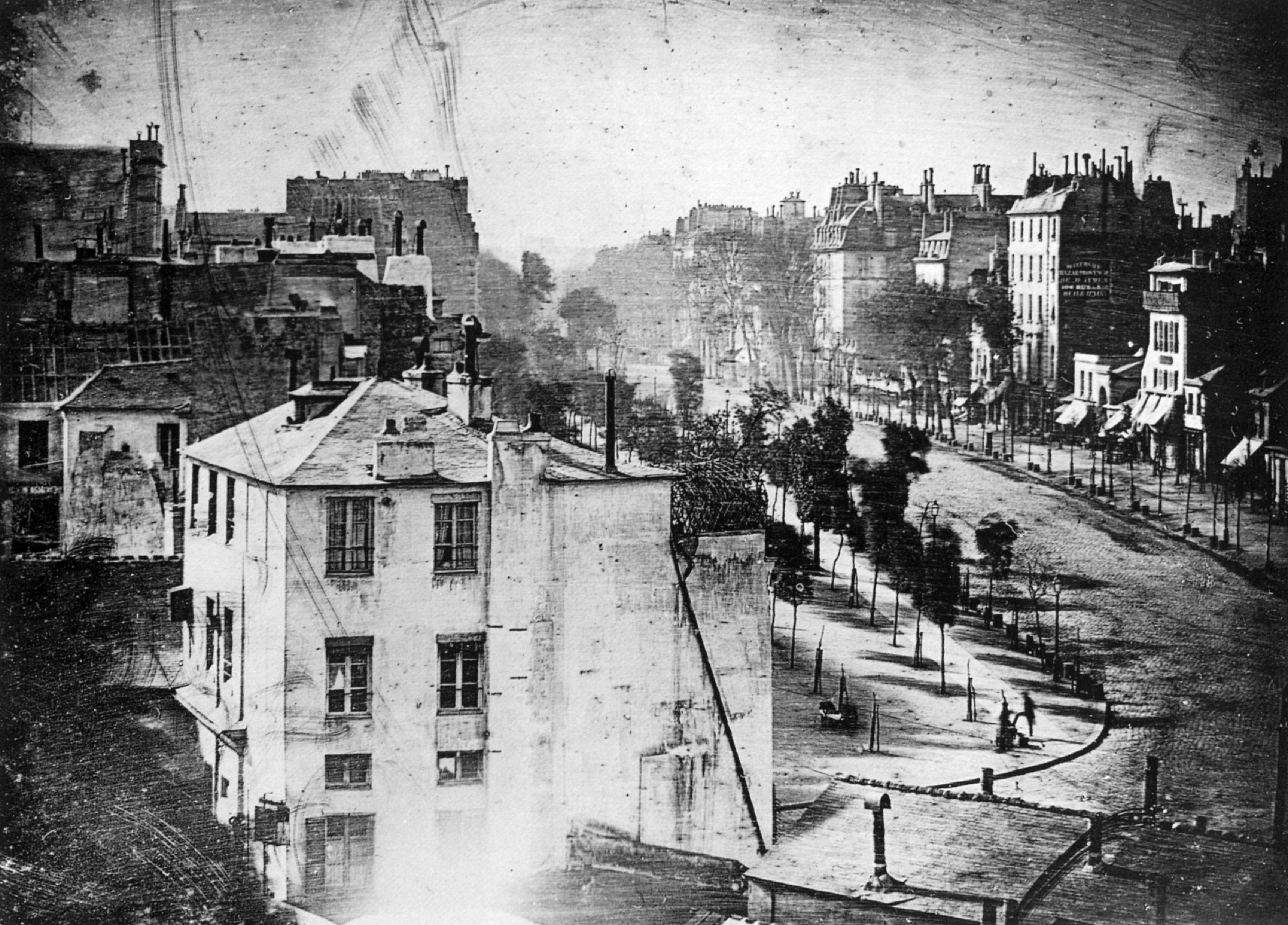 Boulevard du Temple, Paris, IIIe arrondissement, Daguerreotype. The first surviving picture of a living person, taken in 1838. The image shows a busy street, but due to exposure time of more than ten minutes, the traffic was moving too much fast to appear. The exception is the man at the bottom right, who stood still getting his boots polished long enough to show. Look closely and you will also see another man sitting on a bench to the left reading a newspaper. Also, in the upper right hand side, you can see another man standing under the awning of the 3rd building from the right. Speculatively, there could be a woman standing under the street lantern at 2 o'clock from the man getting his shoes shined and another one in the big white building, right column, 3rd window down as well as a face in the top floor window of the white building in front.